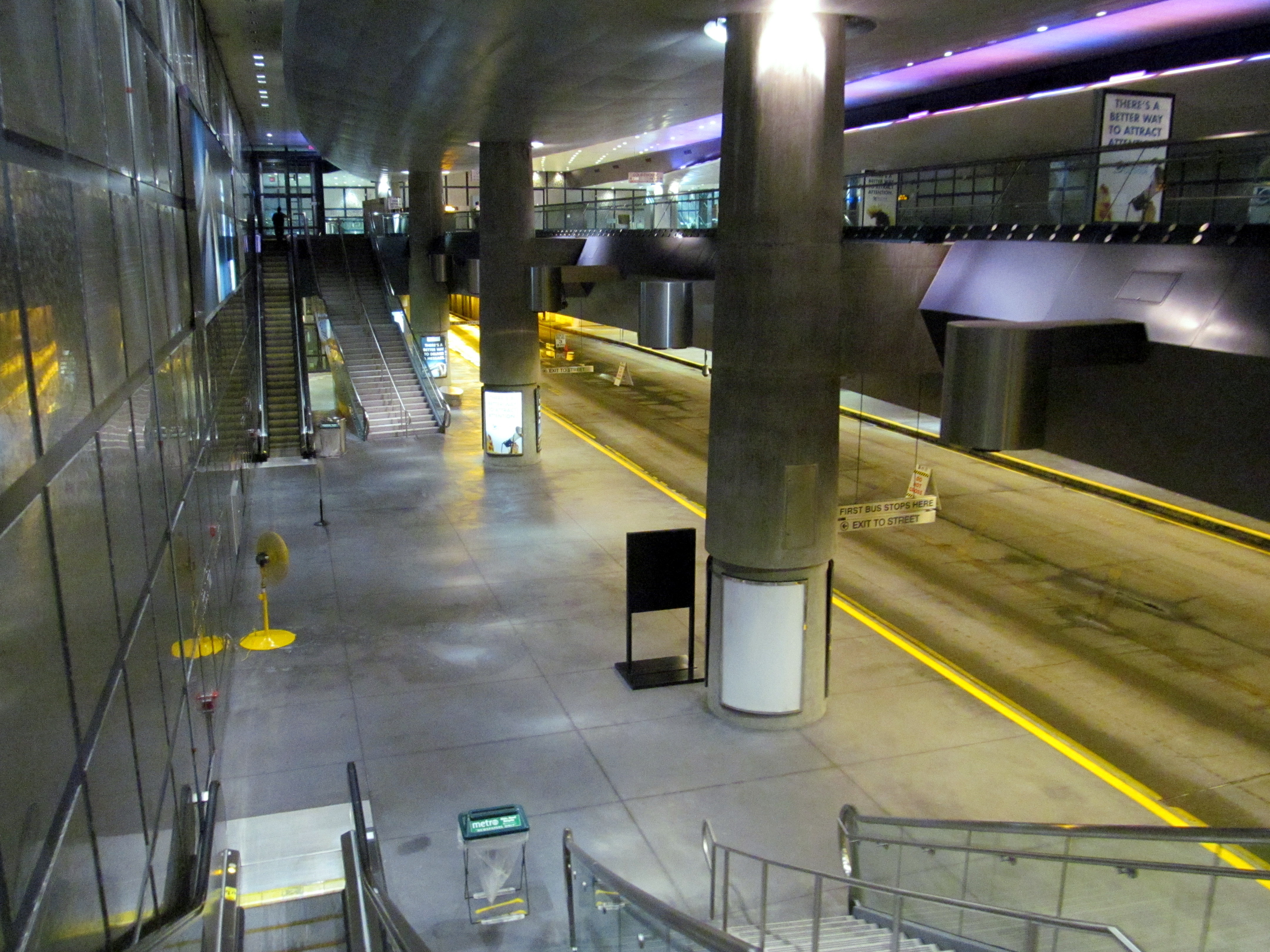 Outbound platform at Courthouse station viewed from the mezzanine in June 2012